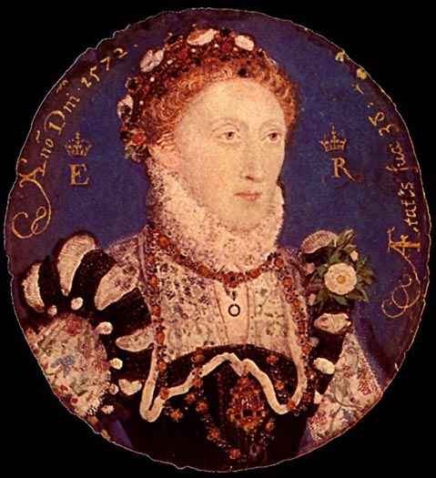 Portrait MIniature of Elizabeth I